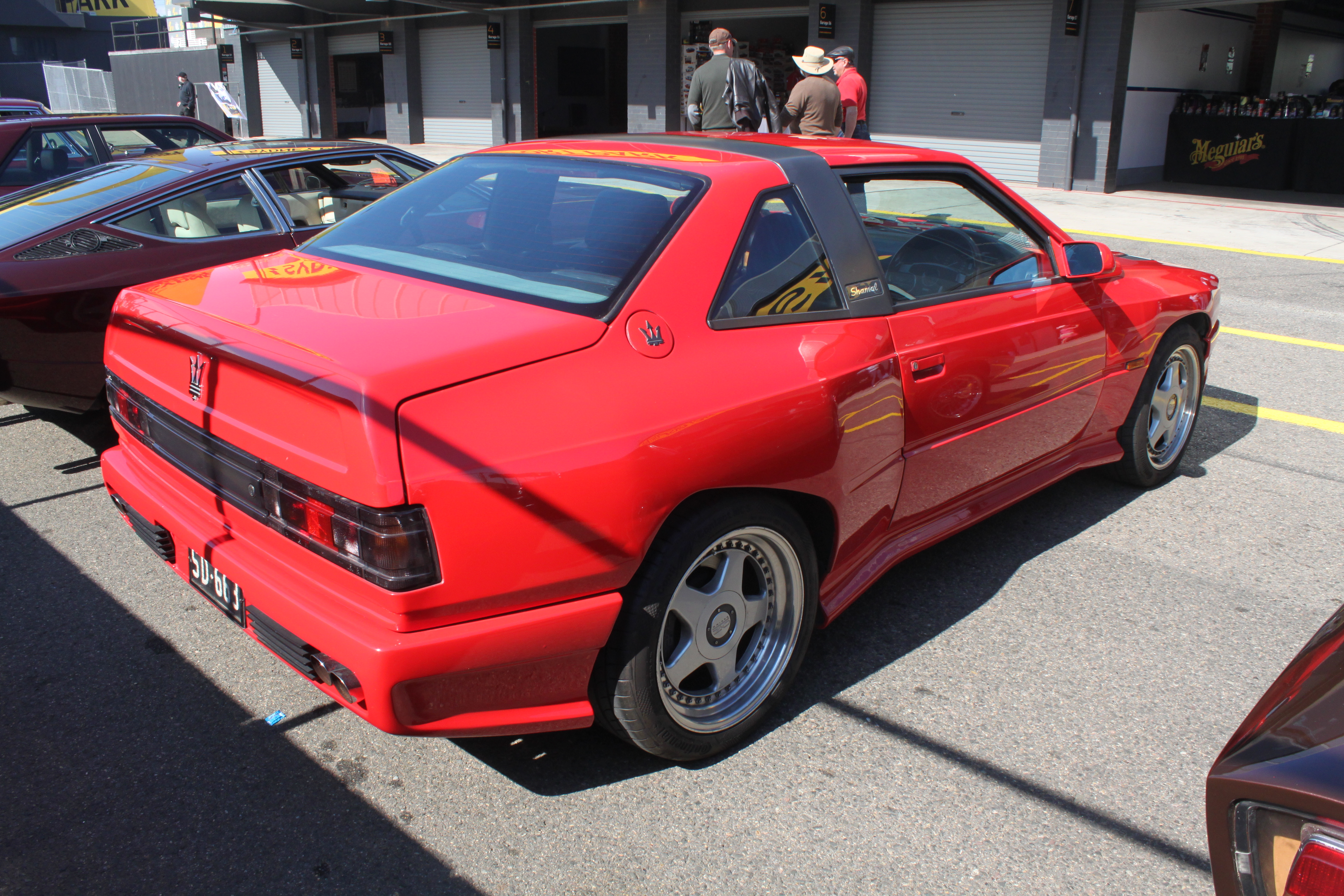 Shannon's Classic, Eastern Creek. NSW August 2015